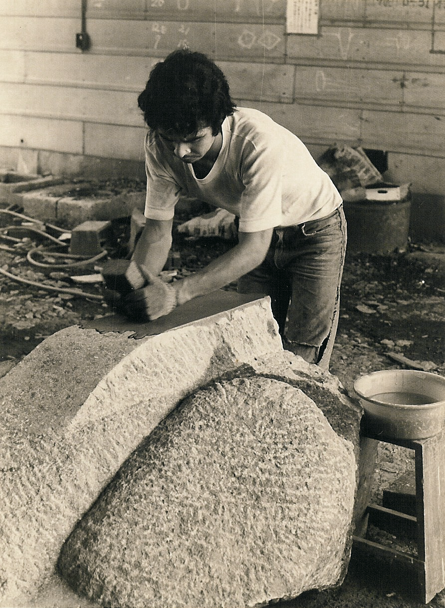 Tetsuo Harada studies at Tamabi Tokyo Fine Art University, Section sculputre. He polished granite one side of his sculpture WORK 1971